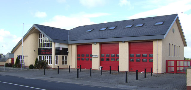 Rathkeale fire station An impressive new building on the eastern edge of town.